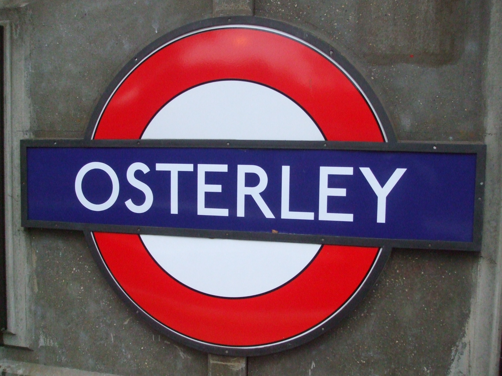 Osterley tube station platform roundel